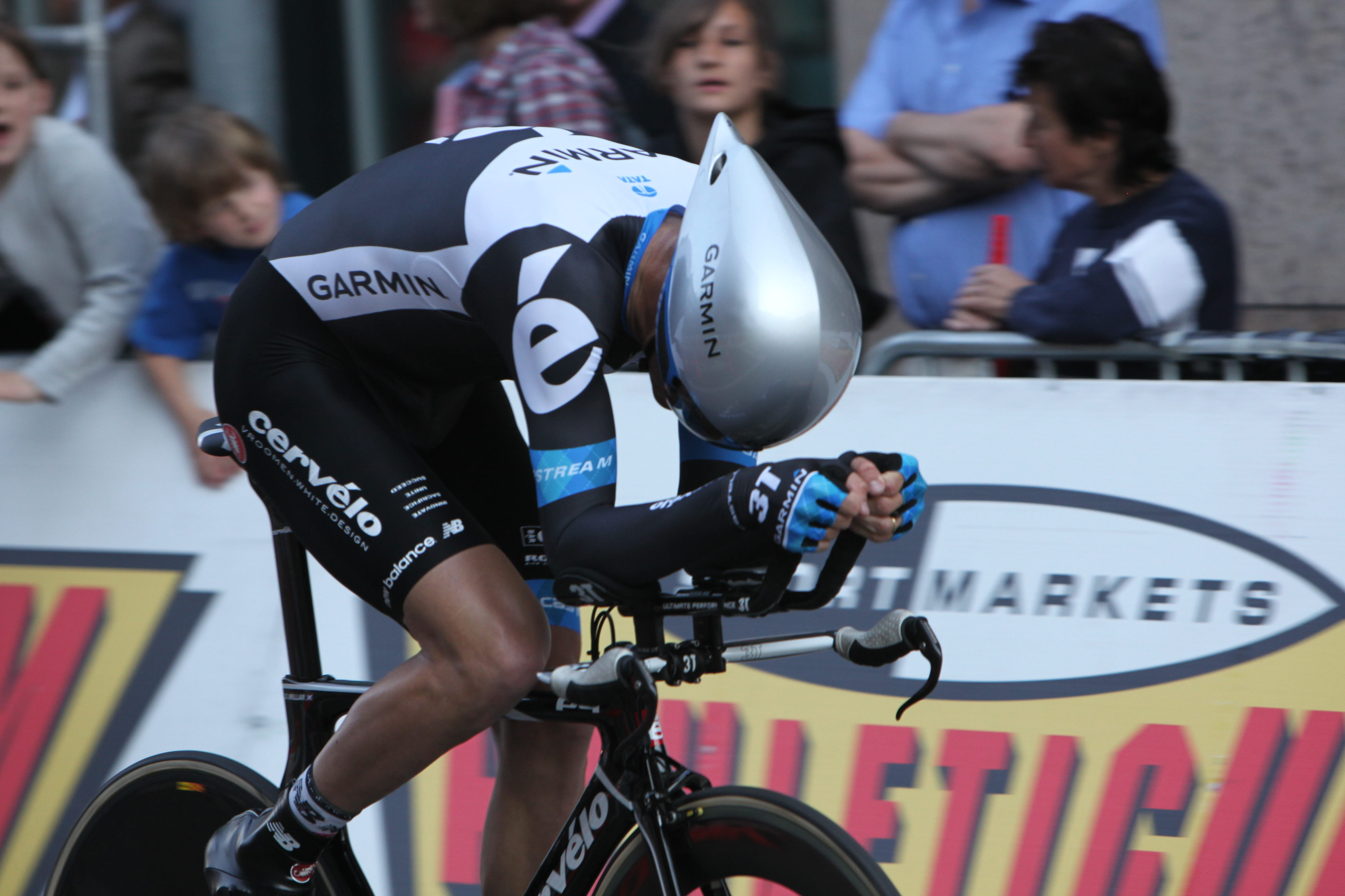 David Millar at the prologue of the Tour de Romandie 2011